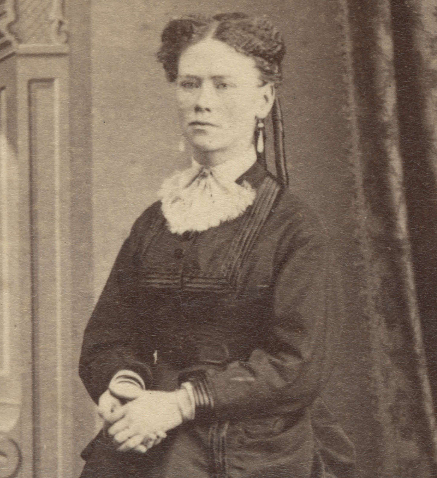 716-2 Mallory, Mrs. Rufus 1858 Cartes de Visite